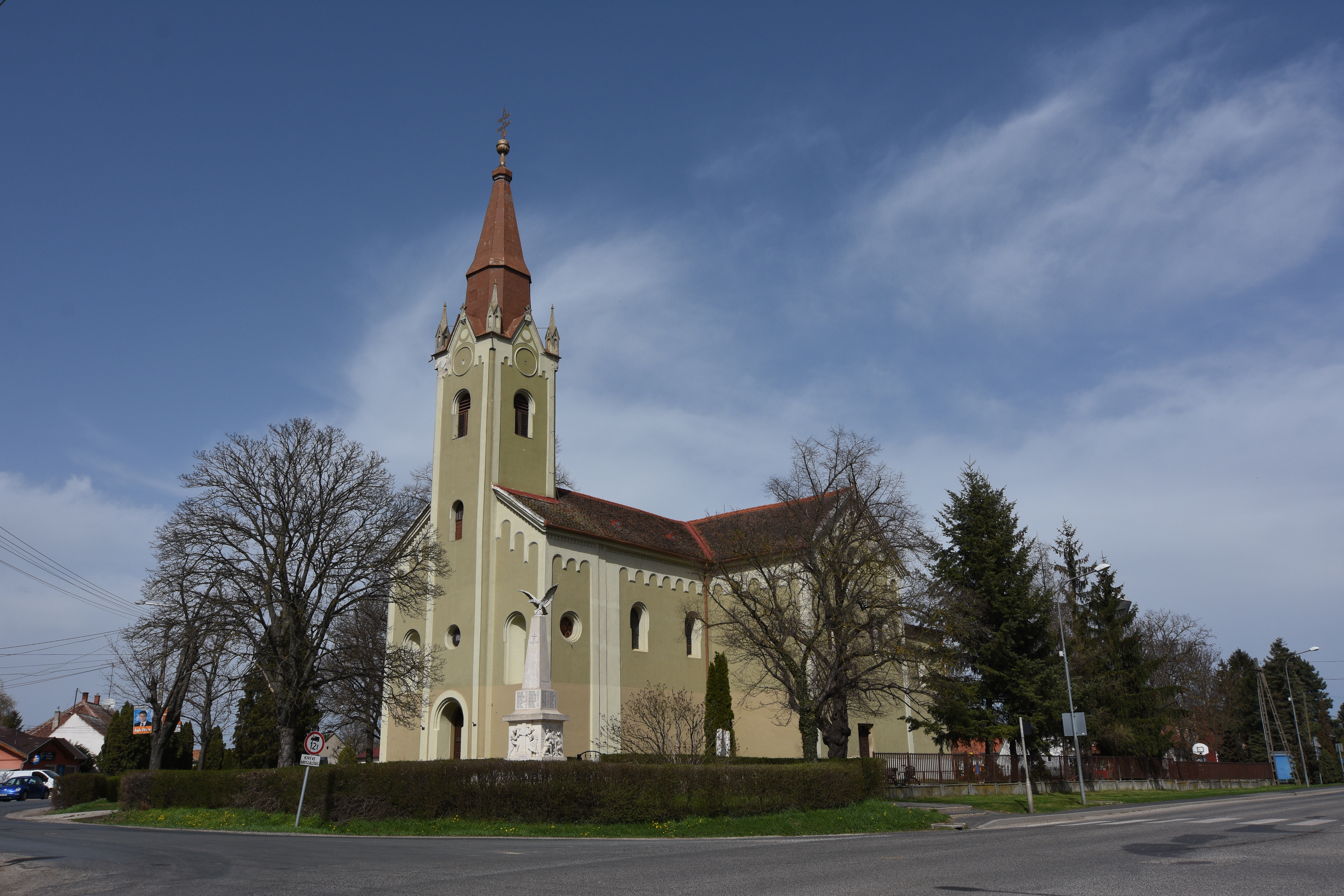 Roman Catholic Church in Vép